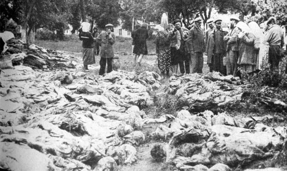 People looking for relatives among repressed in Vinnytsia